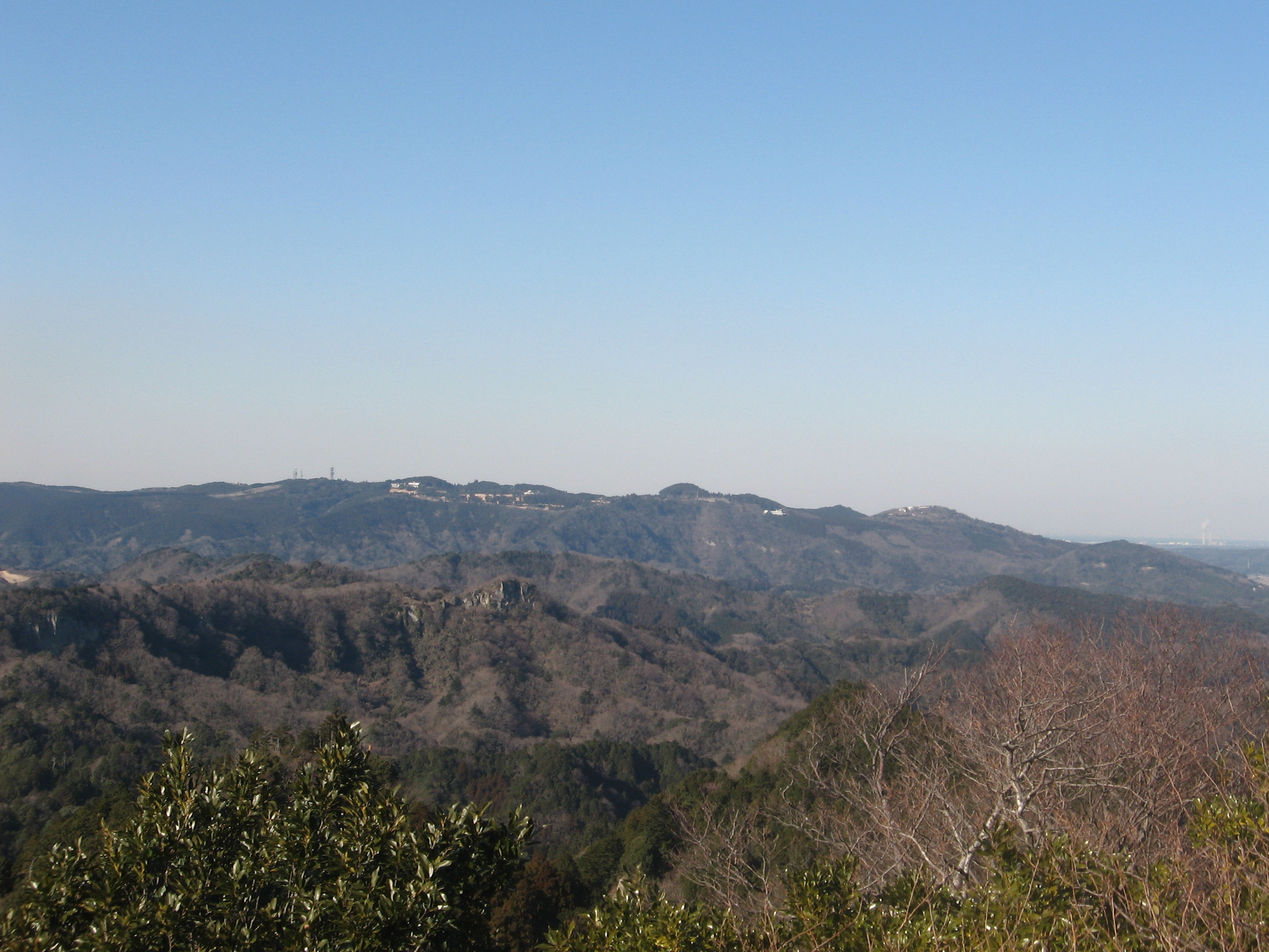 The SSE of Mount Kanozan in Kimitsu, Chiba Prefecture, Japan.